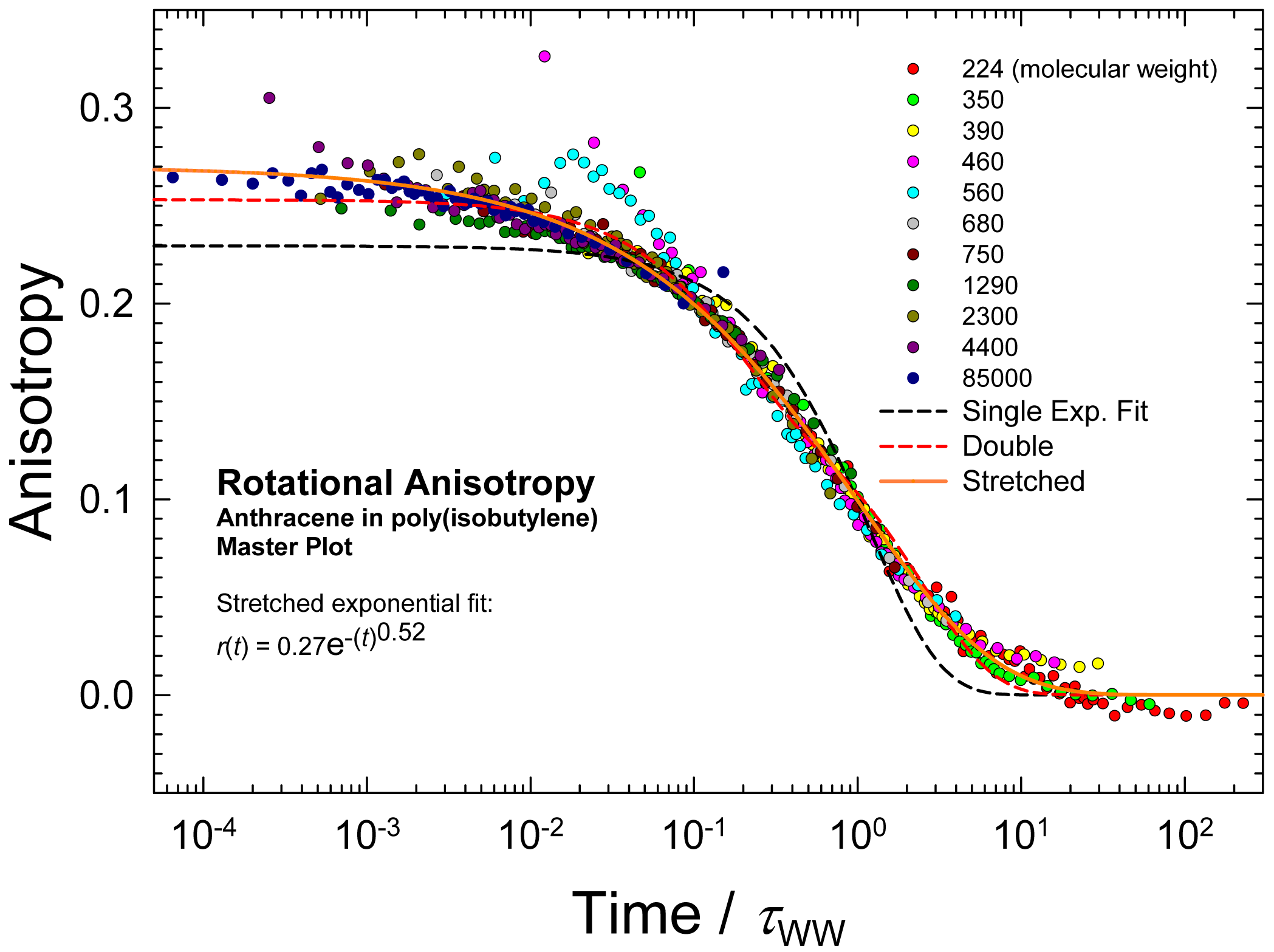 master plot of rotational anisotropy of anthracene in polyisobutylene of various molecular weights